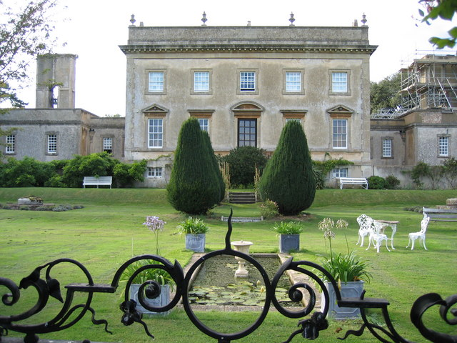 Frampton Court The grounds of this house, from which side the picture is taken, is the site of the popular Frampton Show